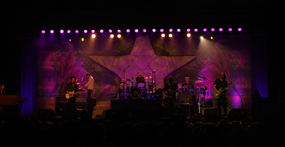 Ringo Starr and his All-Starr Band play the Hordern Pavilion in Sydney, Australia.